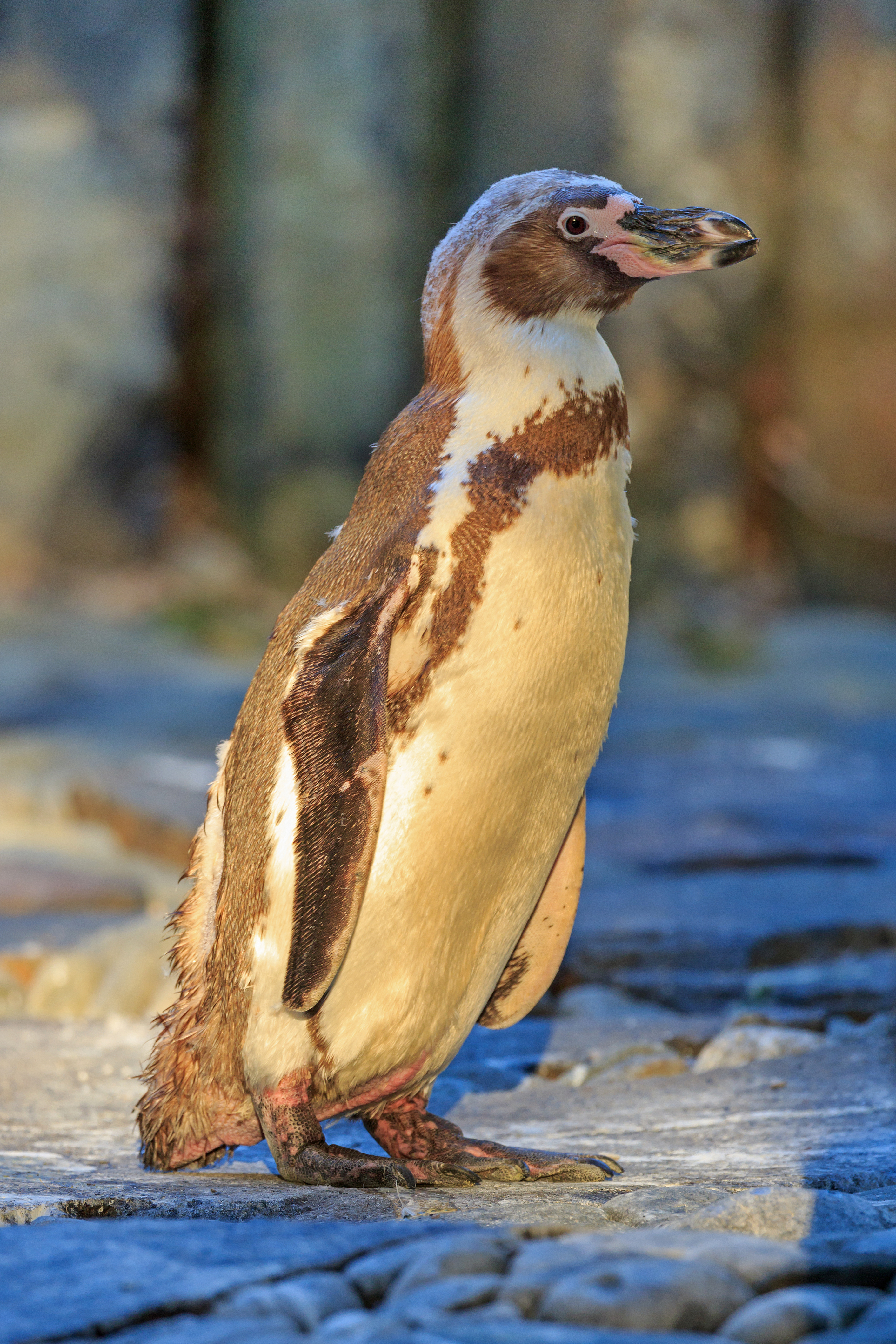 Humboldt penguin in Prague Zoo